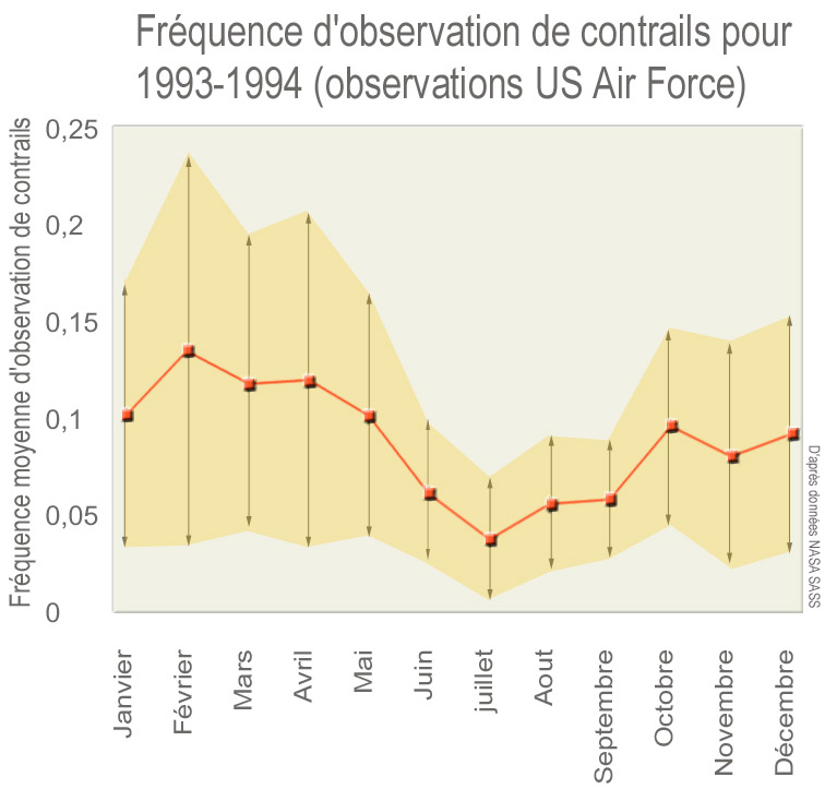 Contrail ( from jet engines) frequency of surface -observation, in 1994-95, in the sky over the Langley (USA), according to data collected by NASA, based on ground observation made by the U.S. Air Force during 12 months in 1993-1994. These data underestimate the actual occurrence as part of contrails was not visible (when the low cloud cover hides the distant sky). The visible trailed corresponded mainly to commercial flights and routes at that time were "relatively frequent" over the base of Langley U.S. Air Force near the Research Center (NASA Langley Research Center). Since then, significant seasonal variations were confirmed, and the number of trails increases.